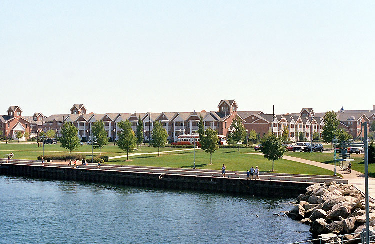 A picture of Harborpark overlooking Kenosha Harbor.